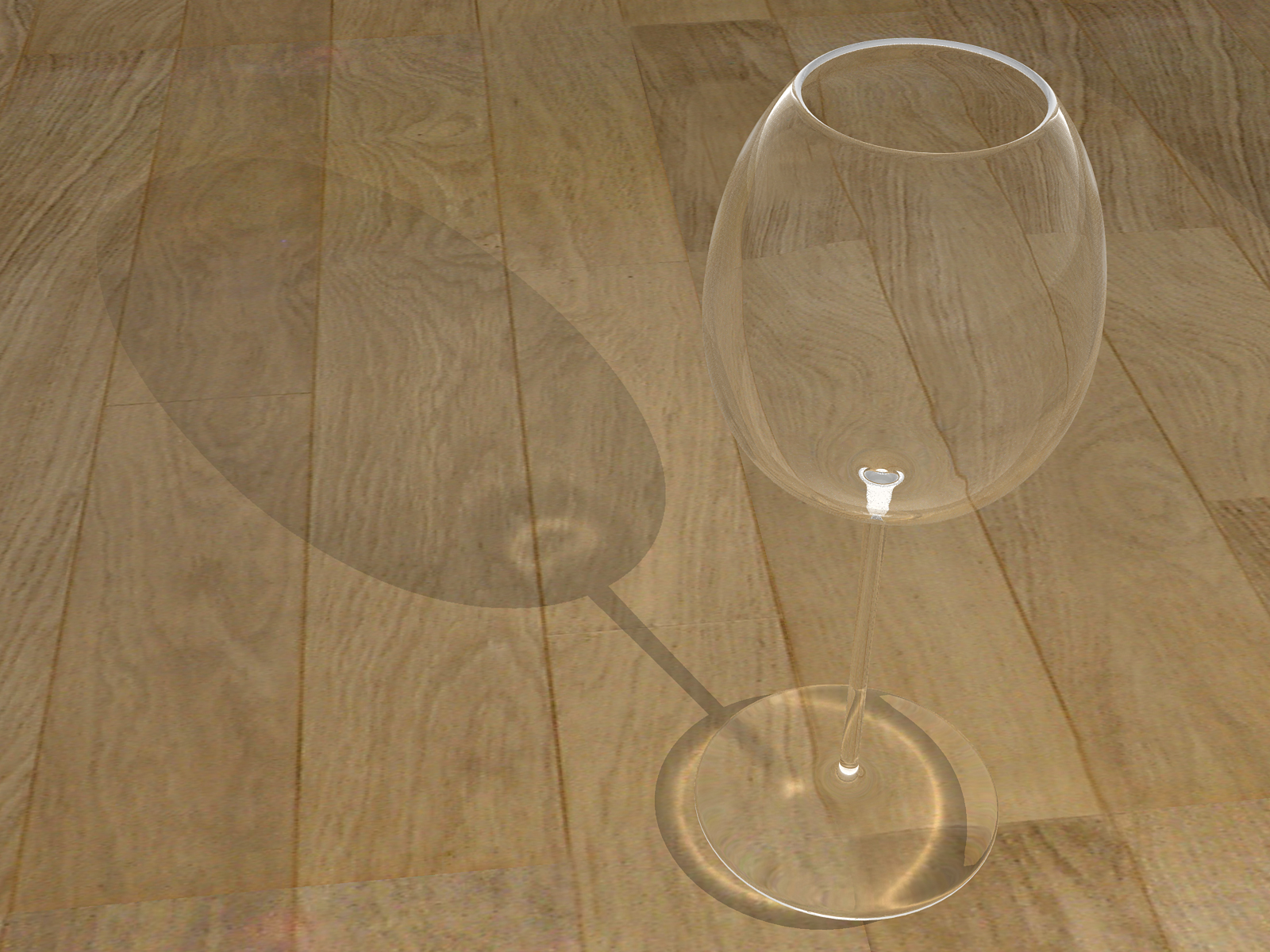 A glas out of a NURBS surface. In this image strip the energy of the emitted caustics photons changed. In this image the energy was at 1000. Rendered with mental ray (caustics, raytraceing).